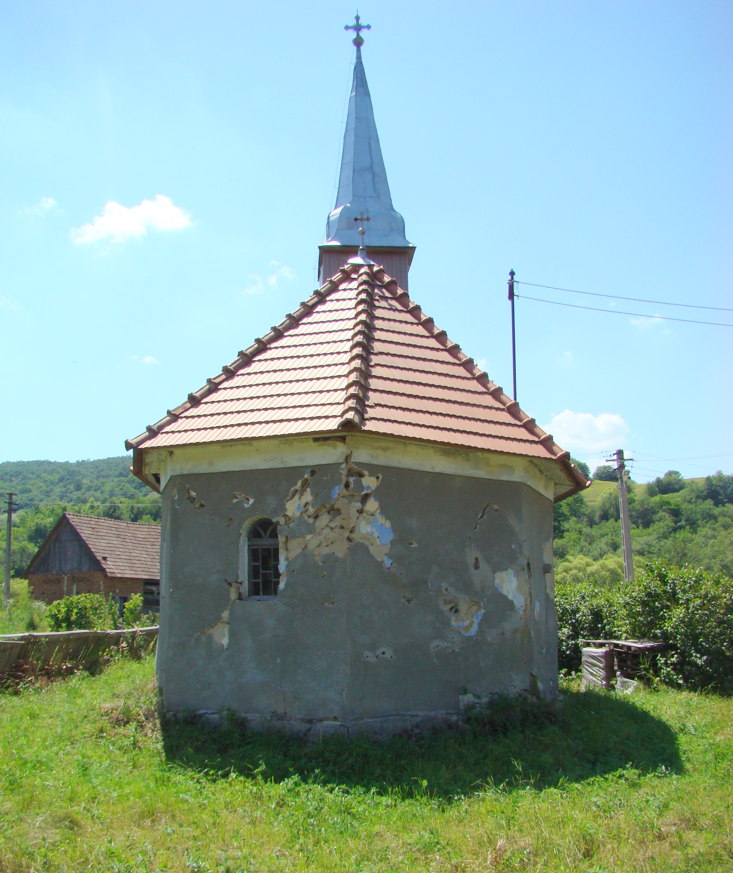 The wooden church in Stoboru, Sălaj county, Romania